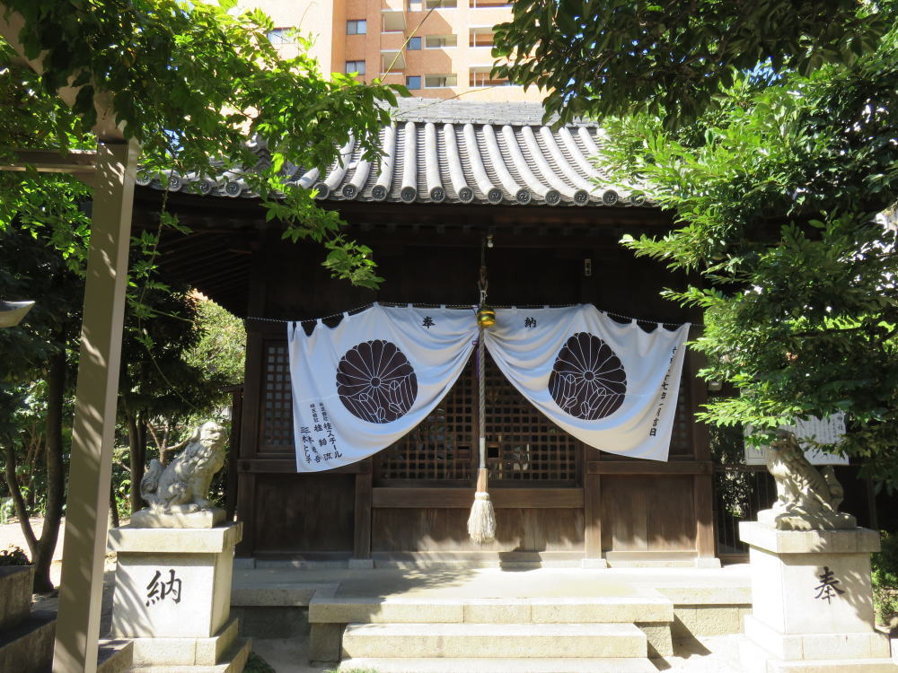 Okiku-shrine (Himeji City)